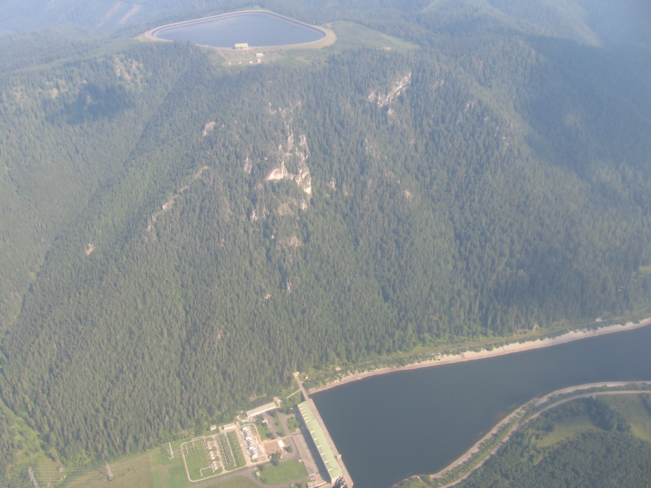 Cierny Vah pumped station hydroelectricity dams